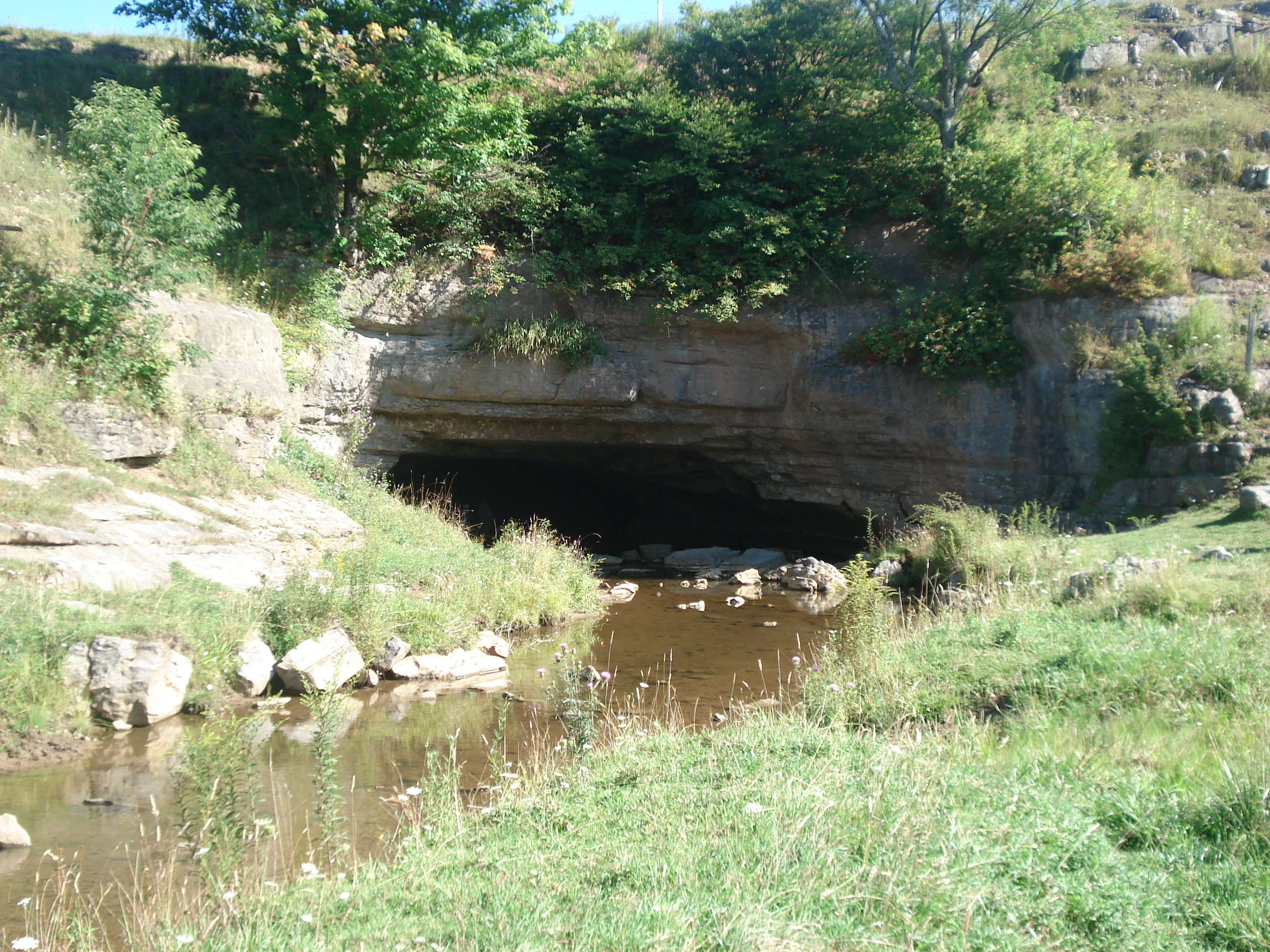 Sinks of Gandy Creek; Upper (upstream) entrance